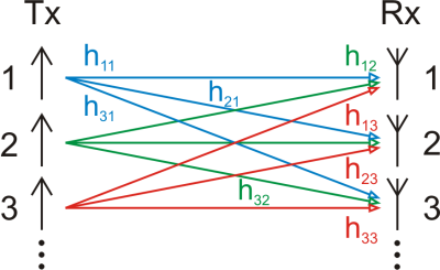 Illustration of MIMO channel matrix in a wireless communication system using multiple transmitters (Tx) and receivers (Rx)